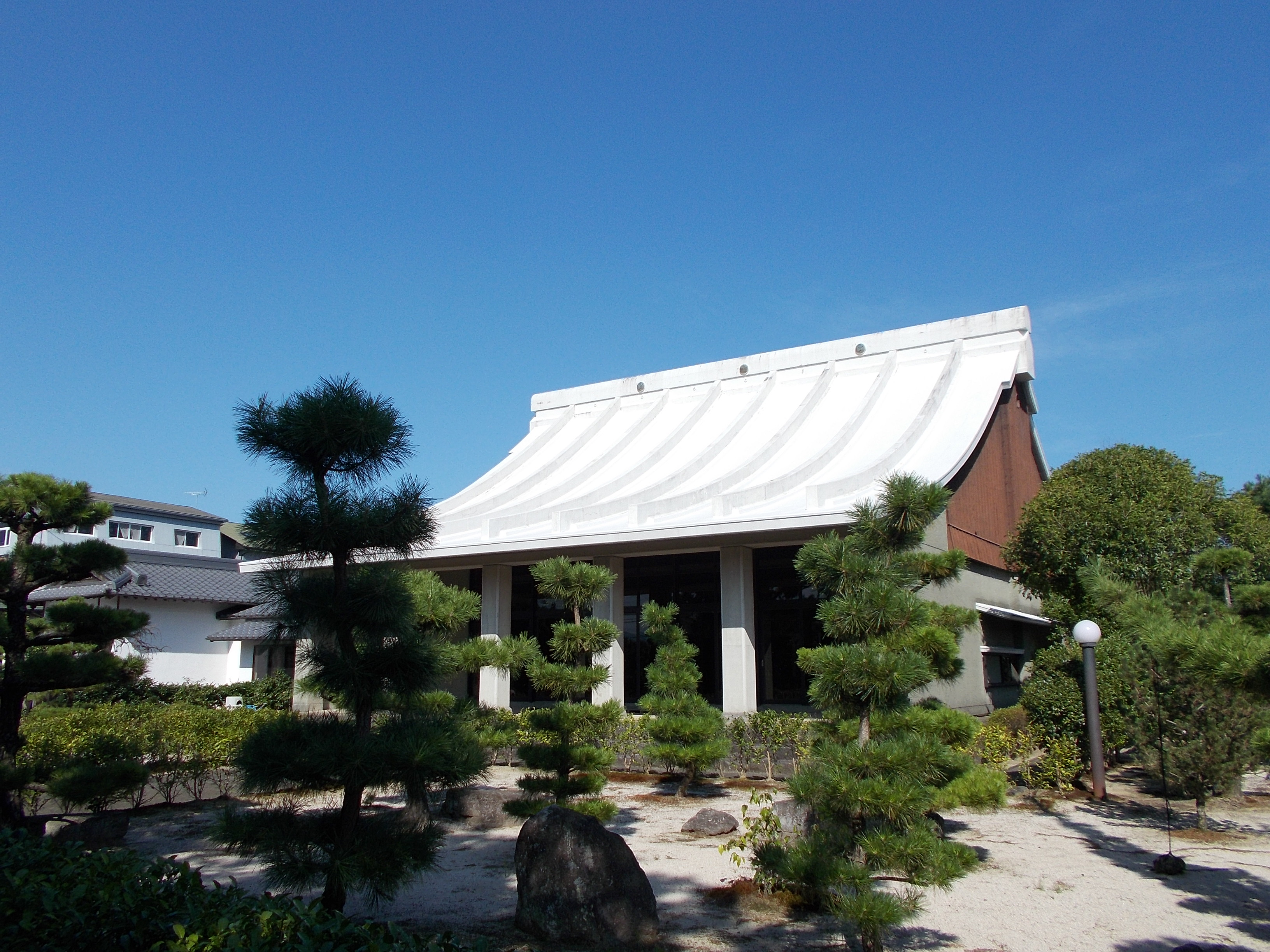 Tokuun-ji, Kurume, Fukuoka, Japan